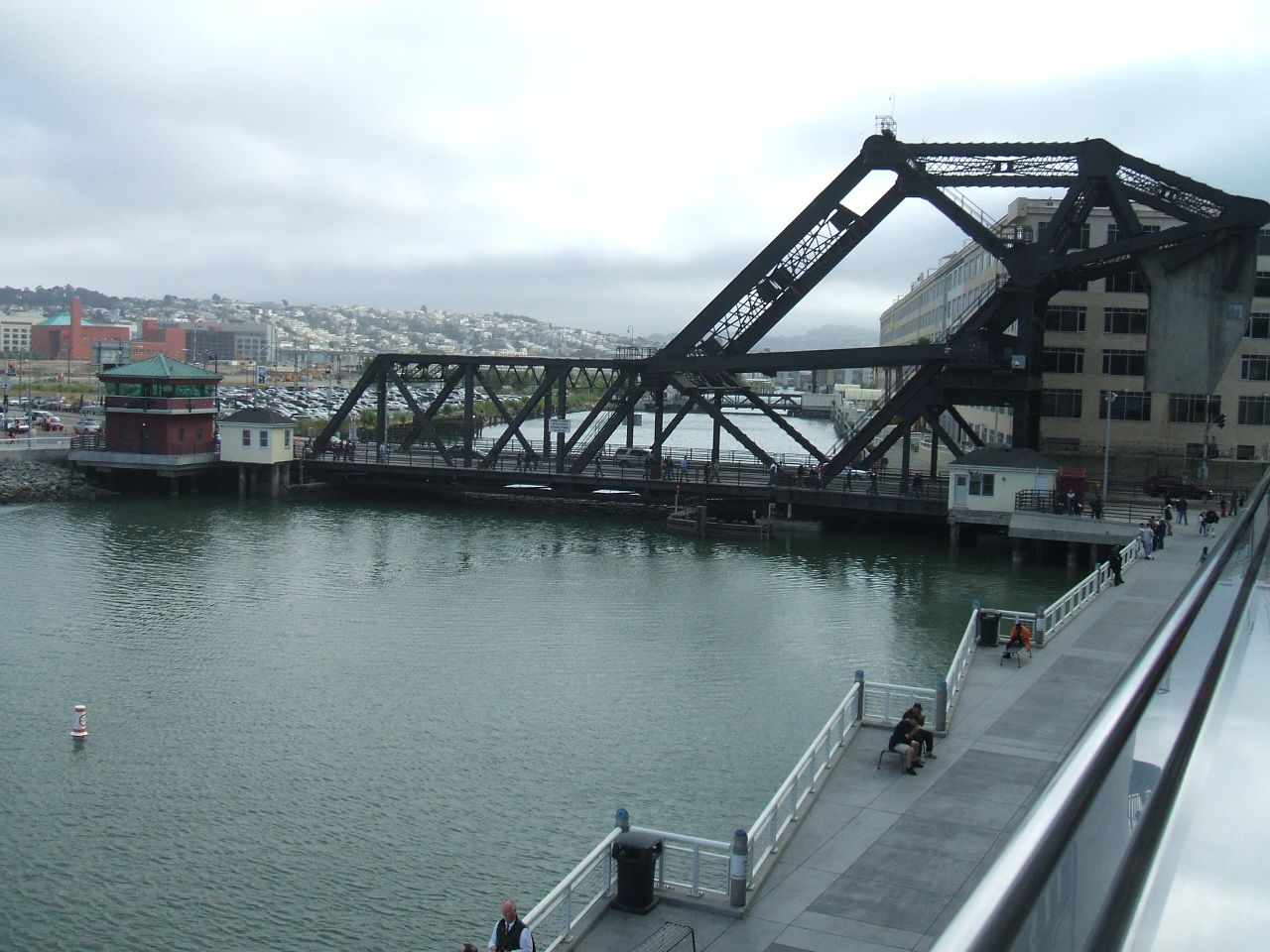 The Lefty O'Doul Bridge (also known as the Third Street Bridge or China Basin Bridge) — a bascule (draw) bridge in the China Basin district of San Francisco, California.